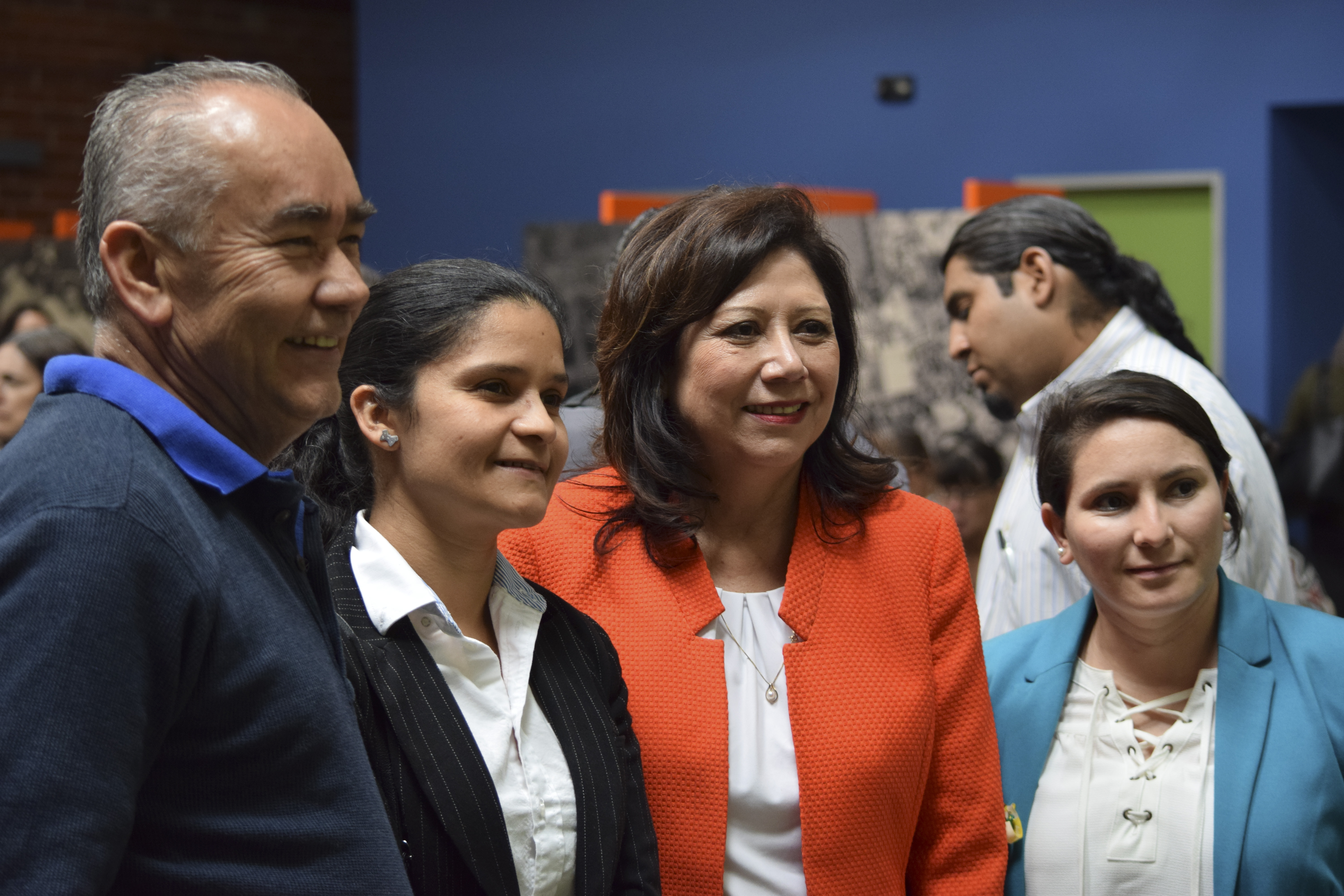 Los Angeles County Board of Supervisors member Hilda Solis (third from left) at the opening of the Ricardo F Icaza Workers' Center in Huntington Park, California. The center is used by the Local 770 of the United Food and Commercial Workers.